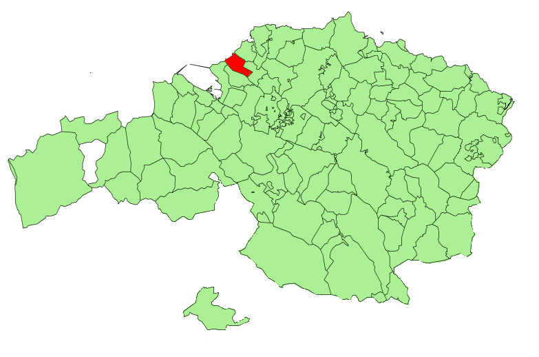 Sopelana municipality in the province of Biscay